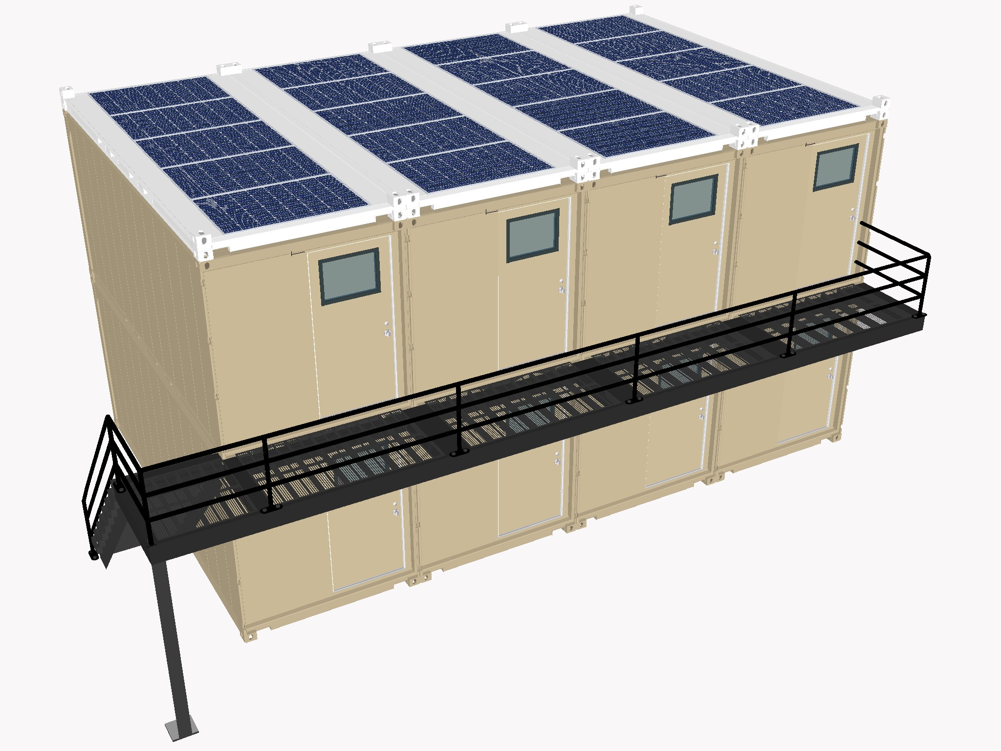 container housing stacked